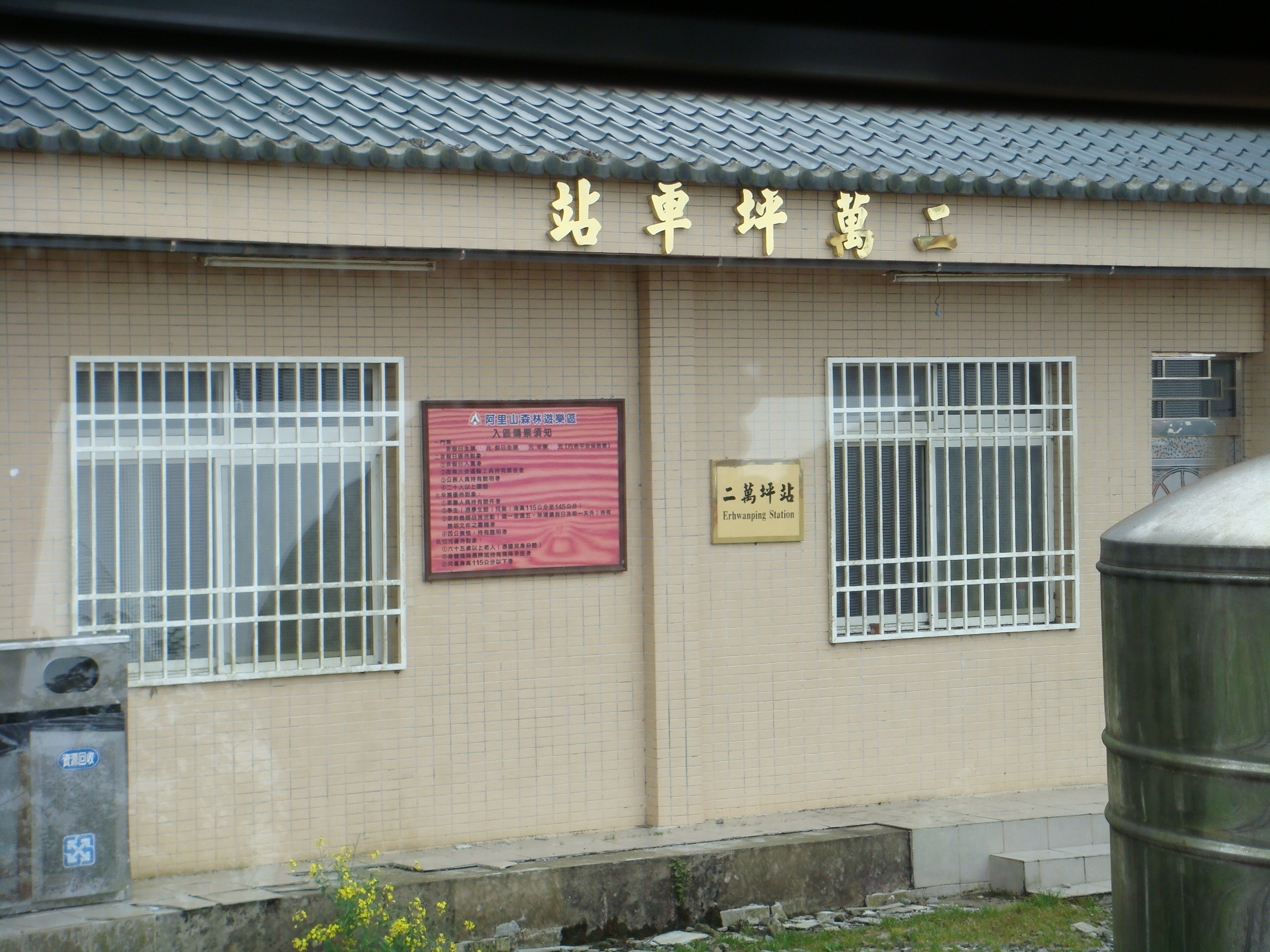 Alishan Forest Railway Erwanping Station 阿里山森林鐵路二萬平車站